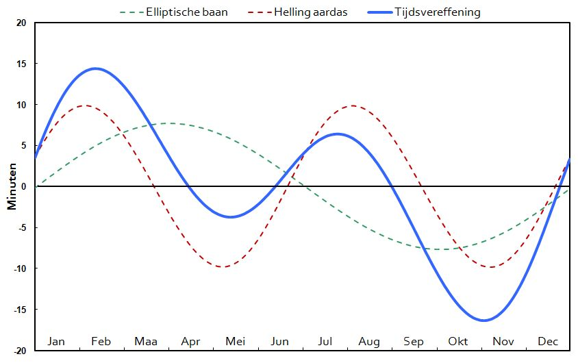 Graph of the equation of time during a year, separately showing the contributions of the elliptical earth orbit and the earth axis tilt. Labels in Dutch.